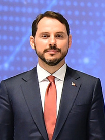 Official guests of 22nd World Petroleum Congress in Istanbul, Turkey.